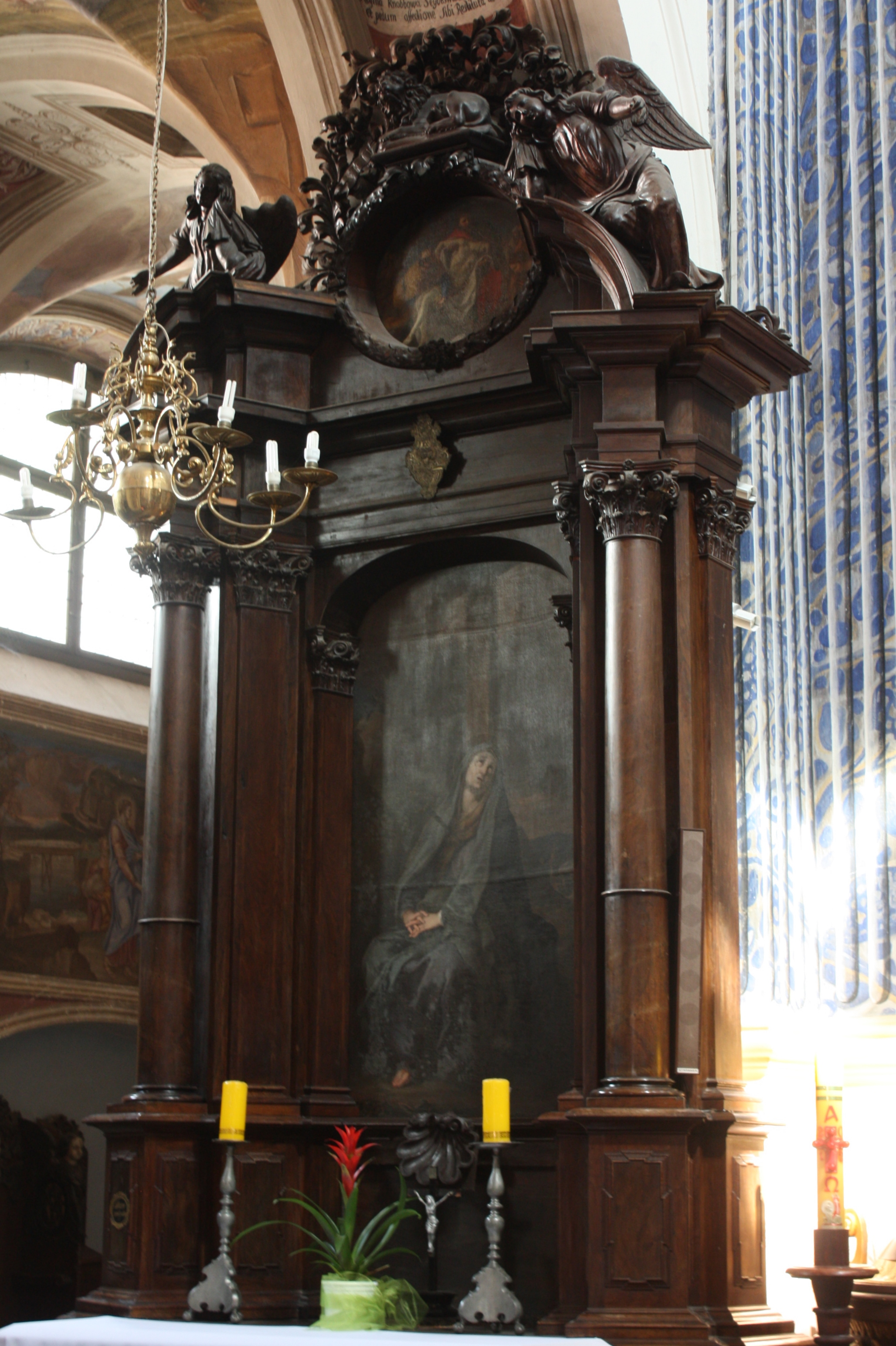 This photo of Warmian-Masurian Voivodeship was taken during Wikiexpedition 2012 set up by Wikimedia Polska Association. You can see all photographs in category Wikiekspedycja 2012. The making of this document was supported by Wikimedia Polska.